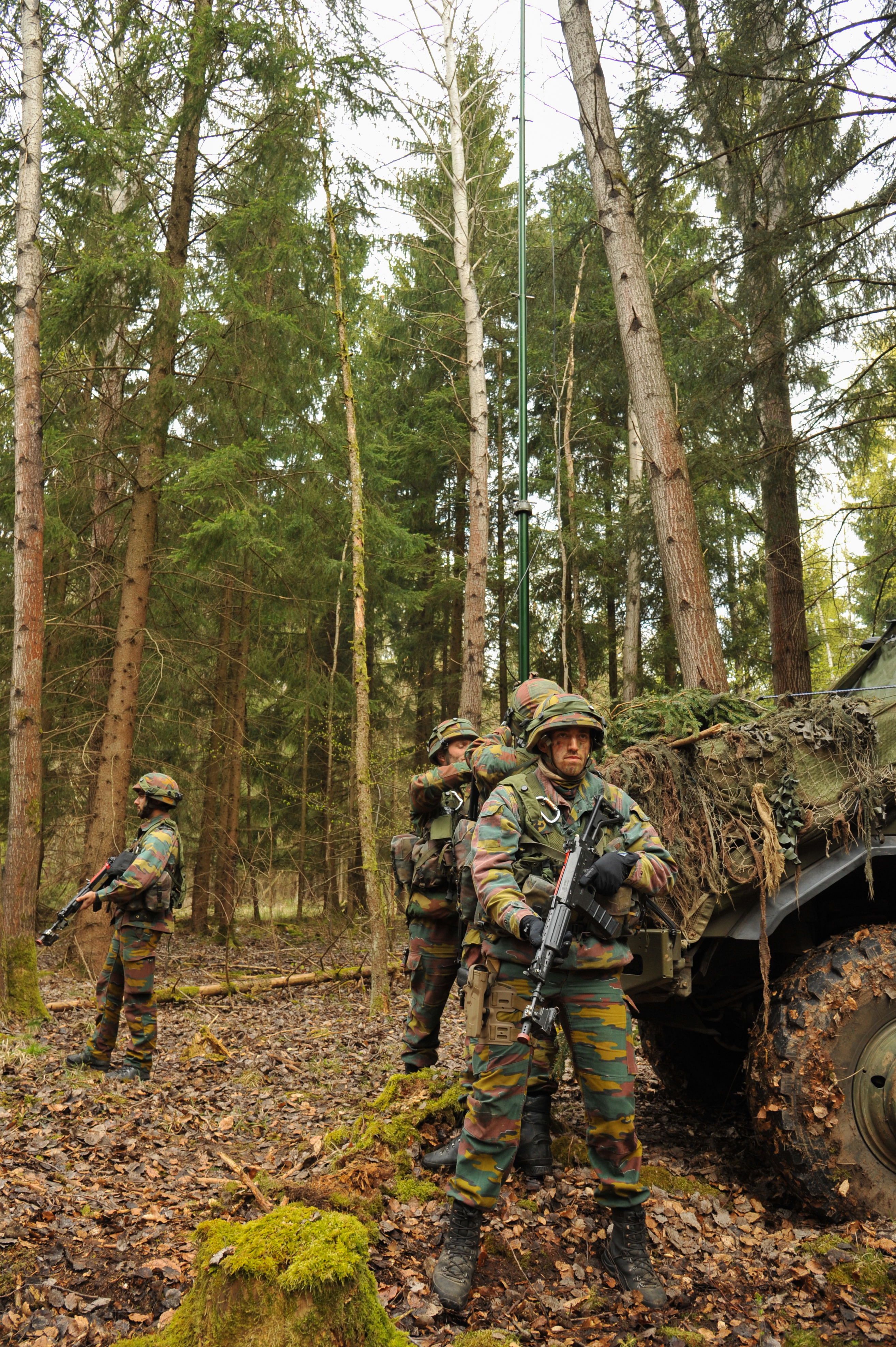 Belgian Army soldiers set up an antenna during exercise Saber Junction 15 at the U.S. Army’s Joint Multinational Readiness Center in Hohenfels, Germany, April 23, 2015. Saber Junction 15 prepares NATO and partner nation forces for offensive, defensive and stability operations and promotes interoperability among participants. Saber Junction 15 has more than 4,700 participants from 17 countries, to include: Albania, Armenia, Belgium, Bosnia, Bulgaria, Great Britain, Hungary, Latvia, Lithuania, Luxembourg, Macedonia, Moldova, Poland, Romania, Sweden, Turkey and the U.S. (U.S. Army photo by Visual Information Specialist Markus Rauchenberger/Released)